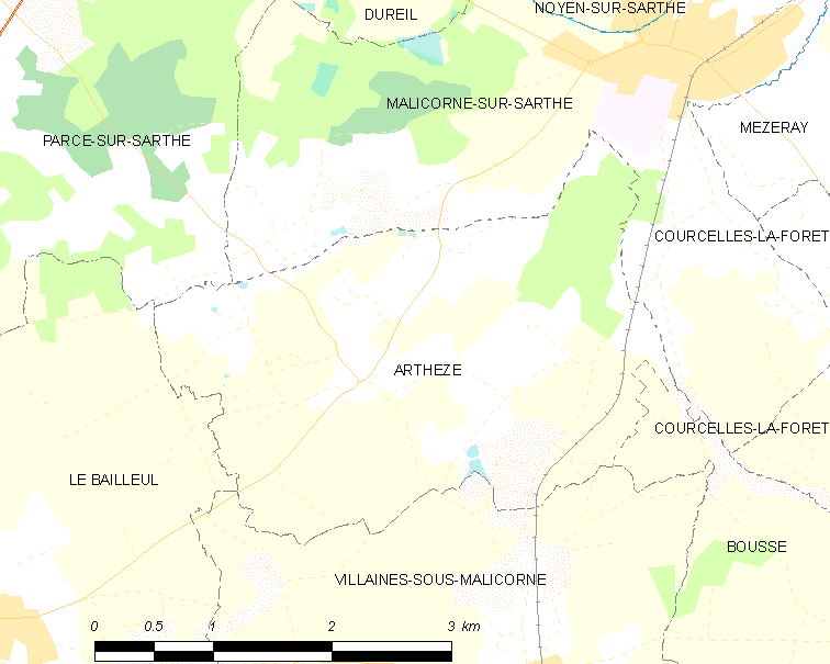 Map of French municipality